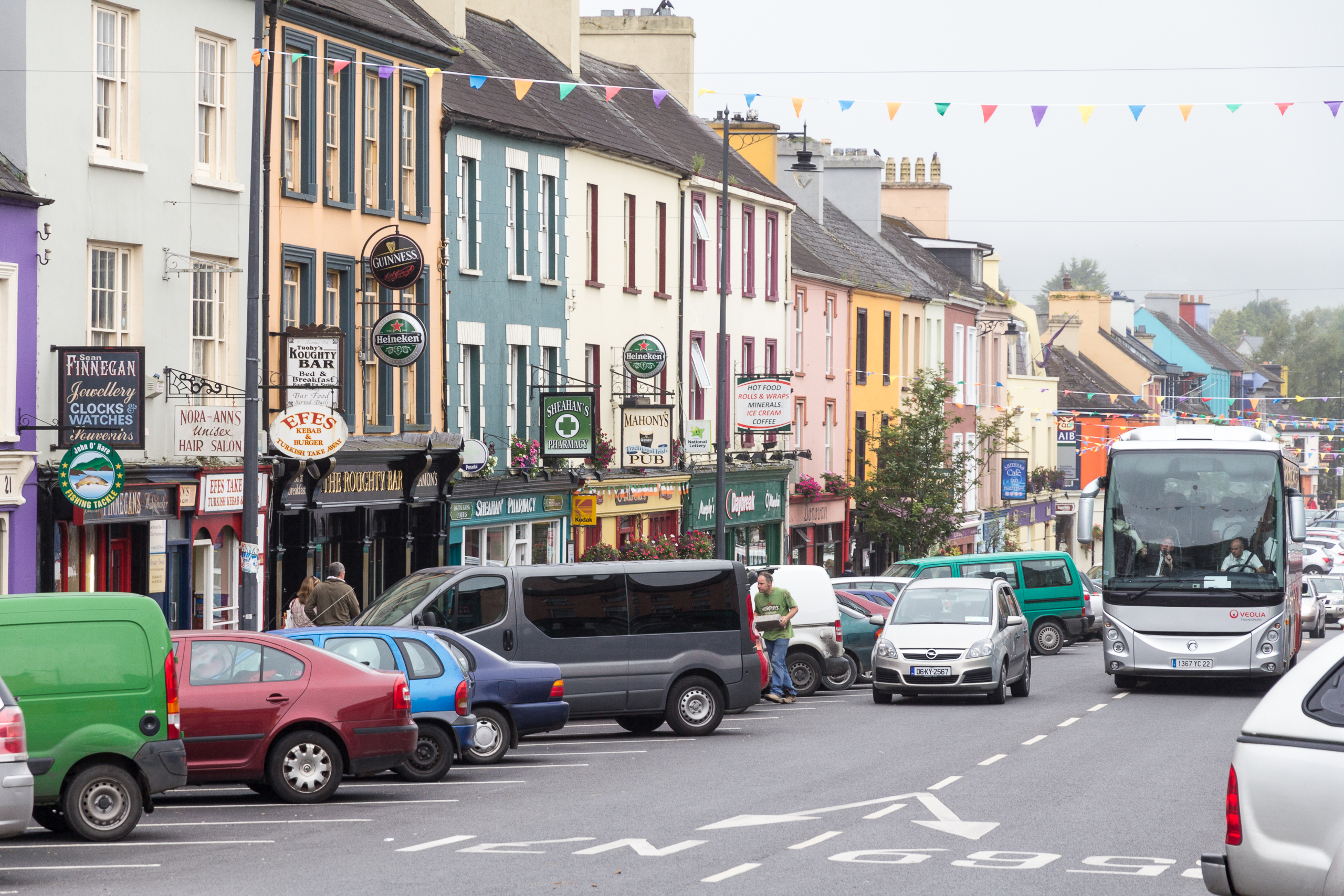 Busy Main Street in Kenmare at a rainy day